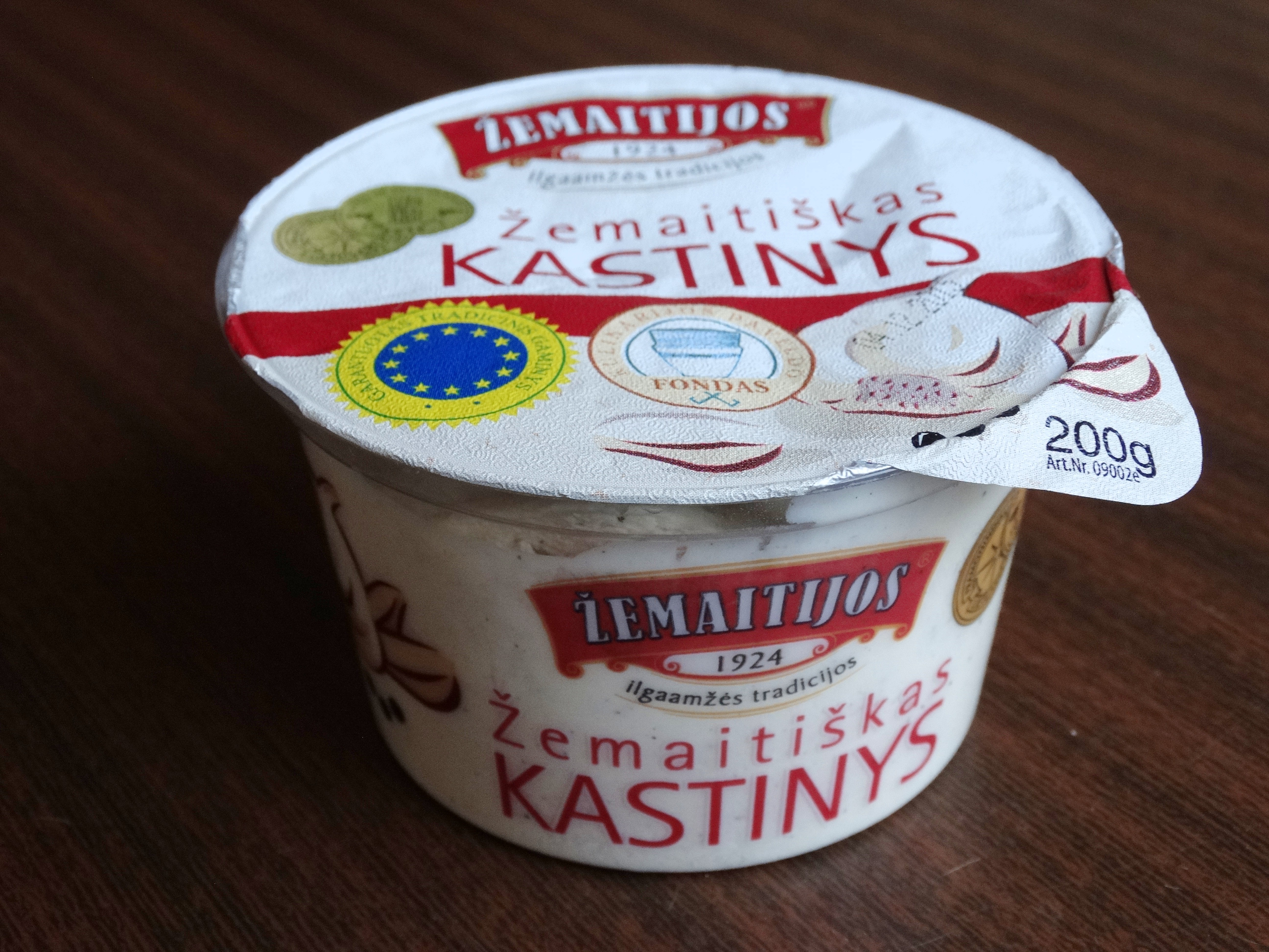 Traditional Lithuanian food: žemaitiškas kastinys (from Samogitia)